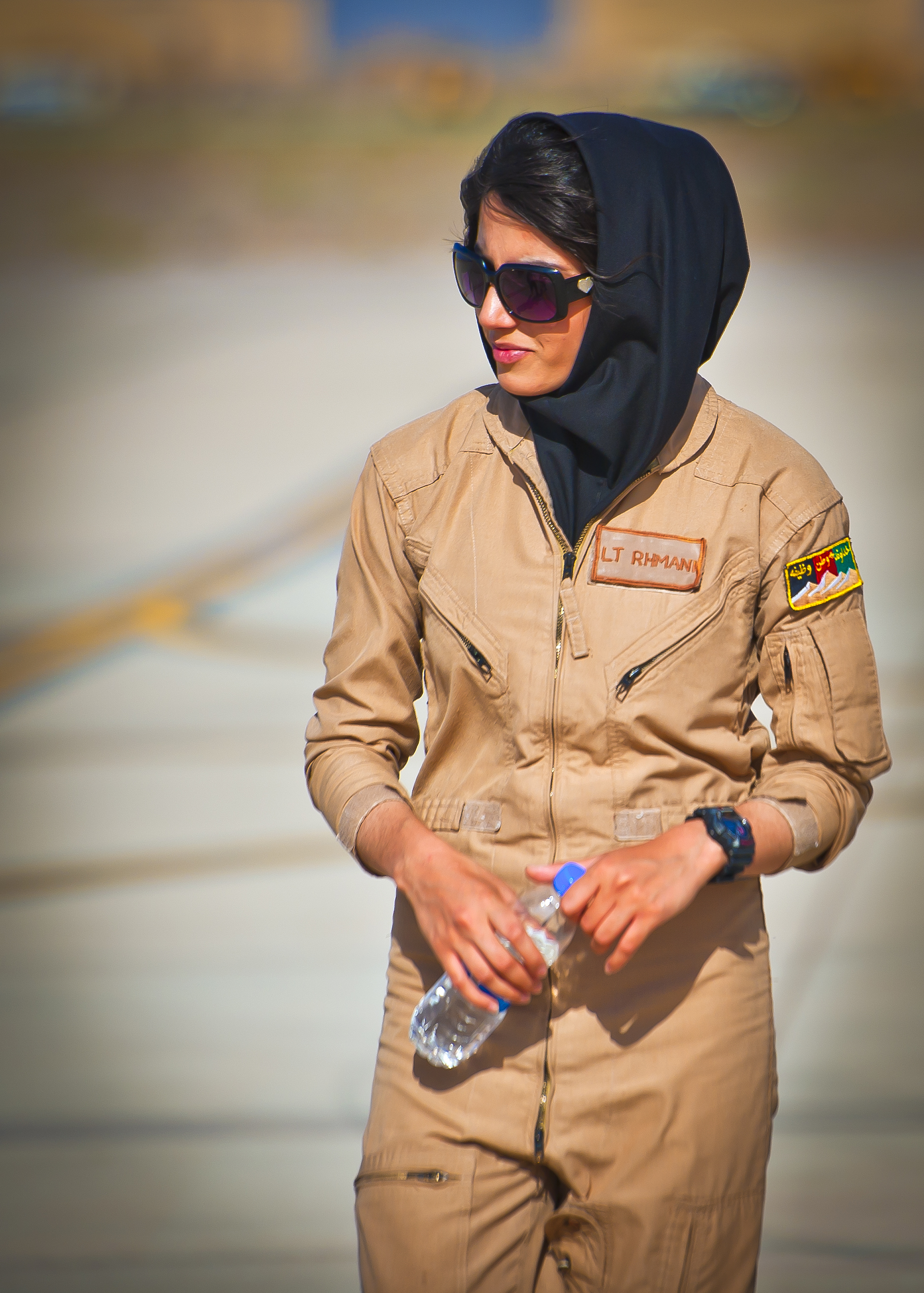 Afghan air force 2nd Lt. Niloofar Rhmani walks the flight line at Shindand Air Base, Afghanistan, prior to her graduation from undergraduate pilot training May 13, 2013. Rhmani made history May 14, when she became the first female to successfully complete undergraduate pilot training and earn the status of pilot in more than 30 years. She will continue her service as she joins the Kabul Air Wing as a Cessna 208 pilot. (Photo ID: 935180)